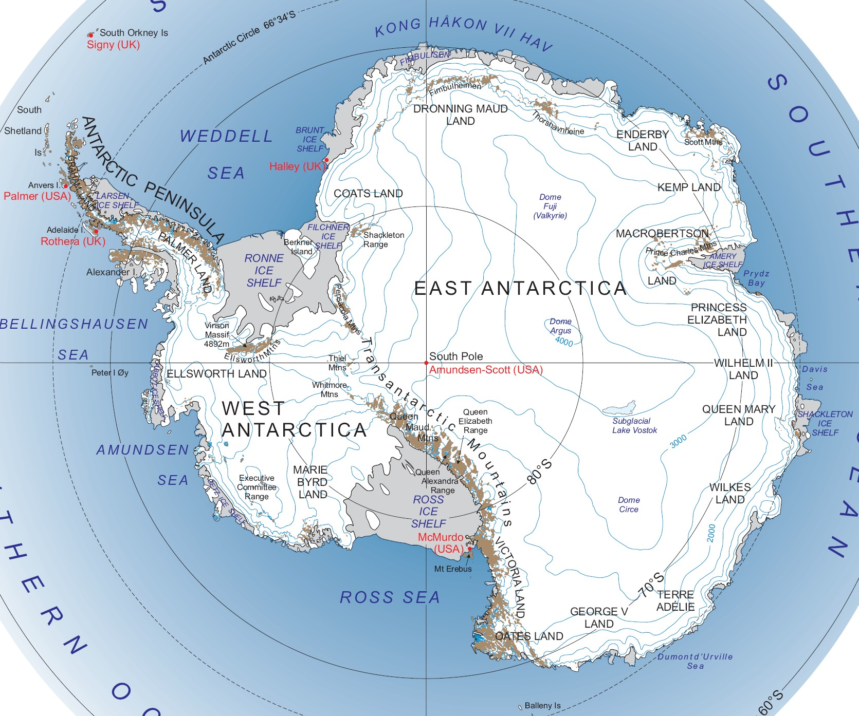 Transantarctic Mountains, West Antarctica, East Antarctica